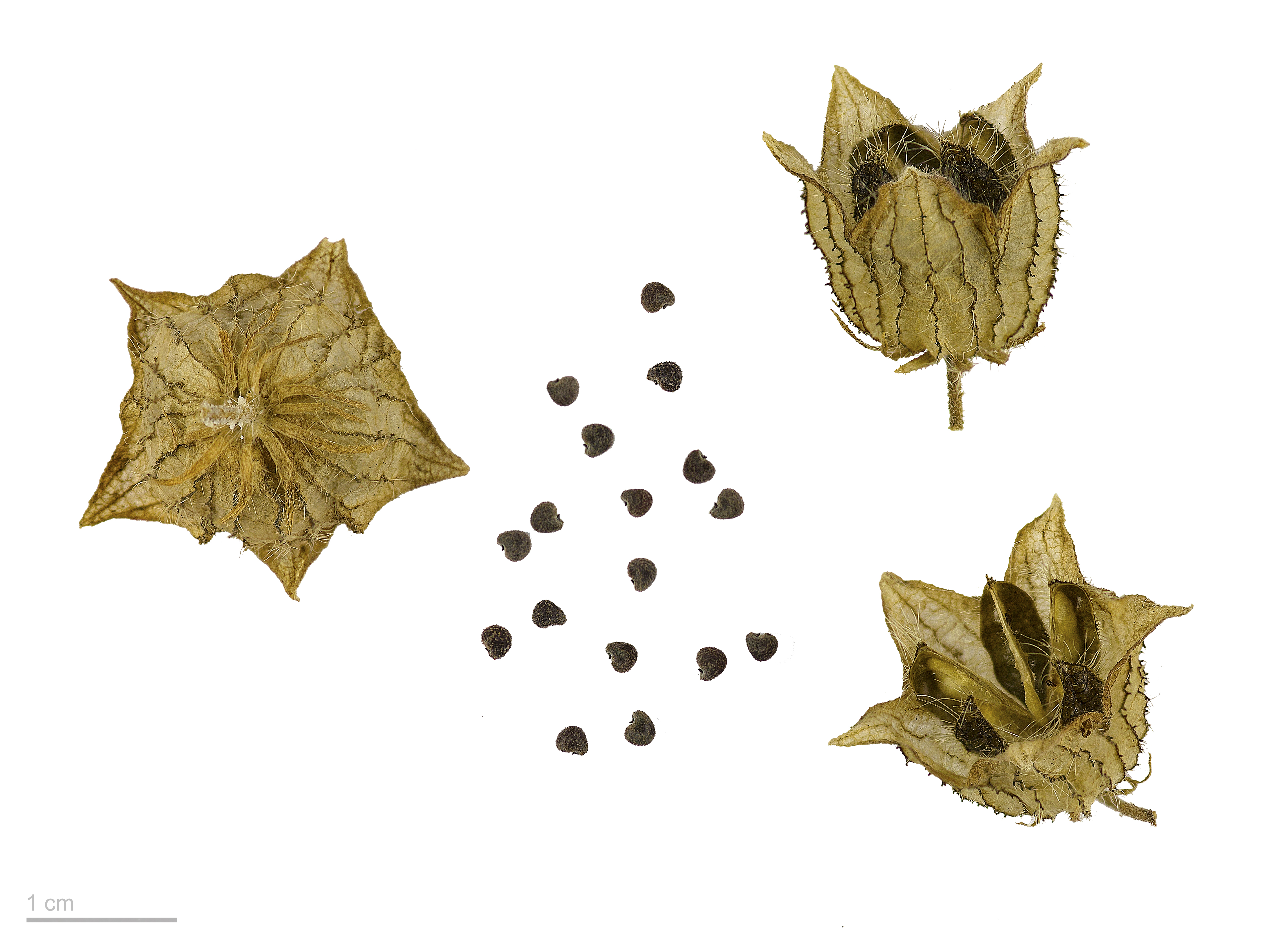 flower-of-an-hour, fruits and seeds